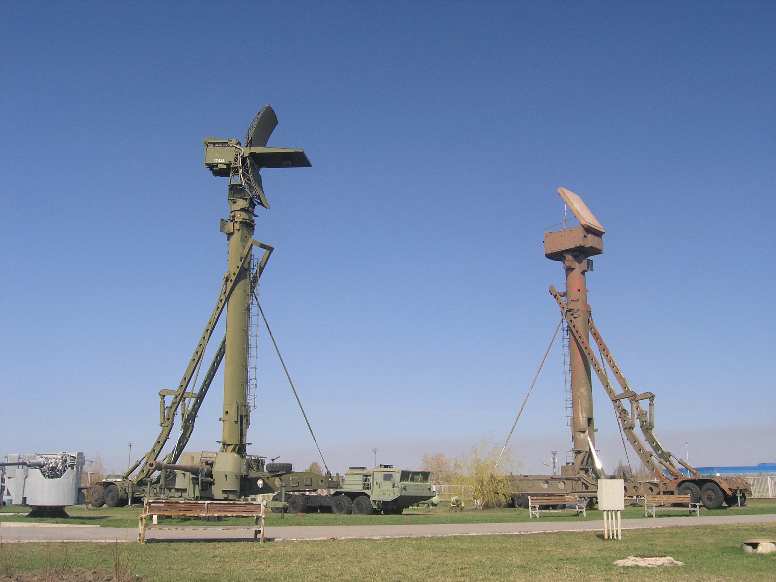 76N6 Clam Shell FMCW acquisition radar (left) and 30N6 (FLAP LID) fire control system